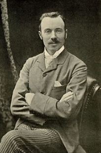 Joseph Thomson, a Scottish explorer of Africa